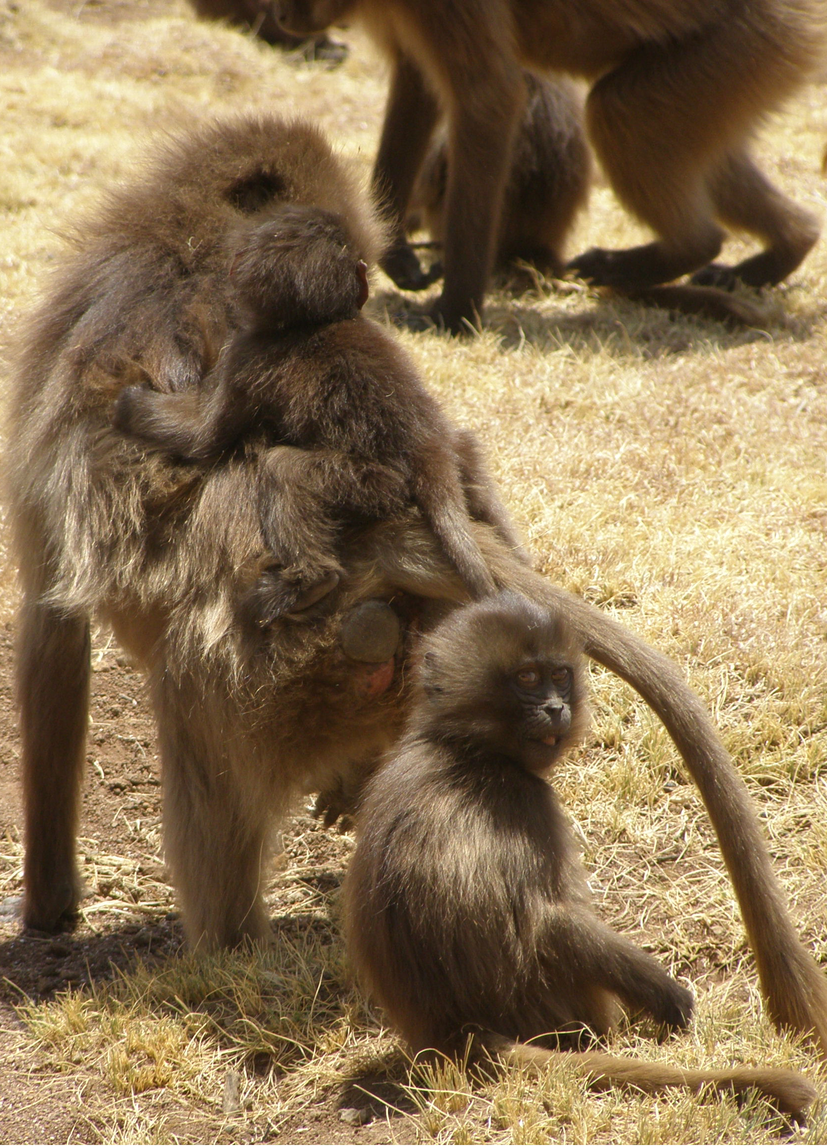 Gelada mother and her babies